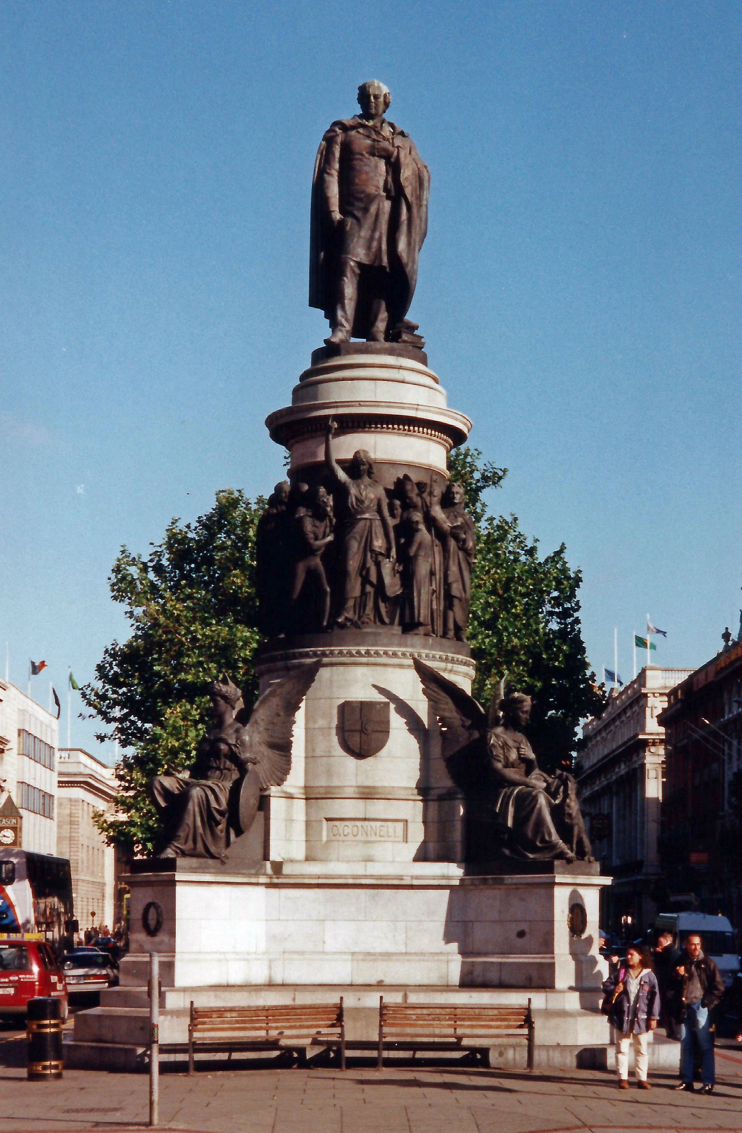 Front view from Eden Quay. Taken Sept 1998, scanned at 600 dpi Jan 2019